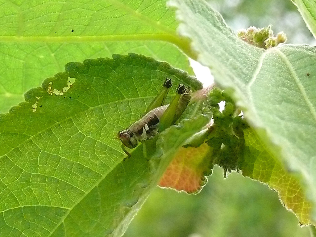 Female of Litothericles vespa(?) photographed in Katavi National Park, Tanzania.